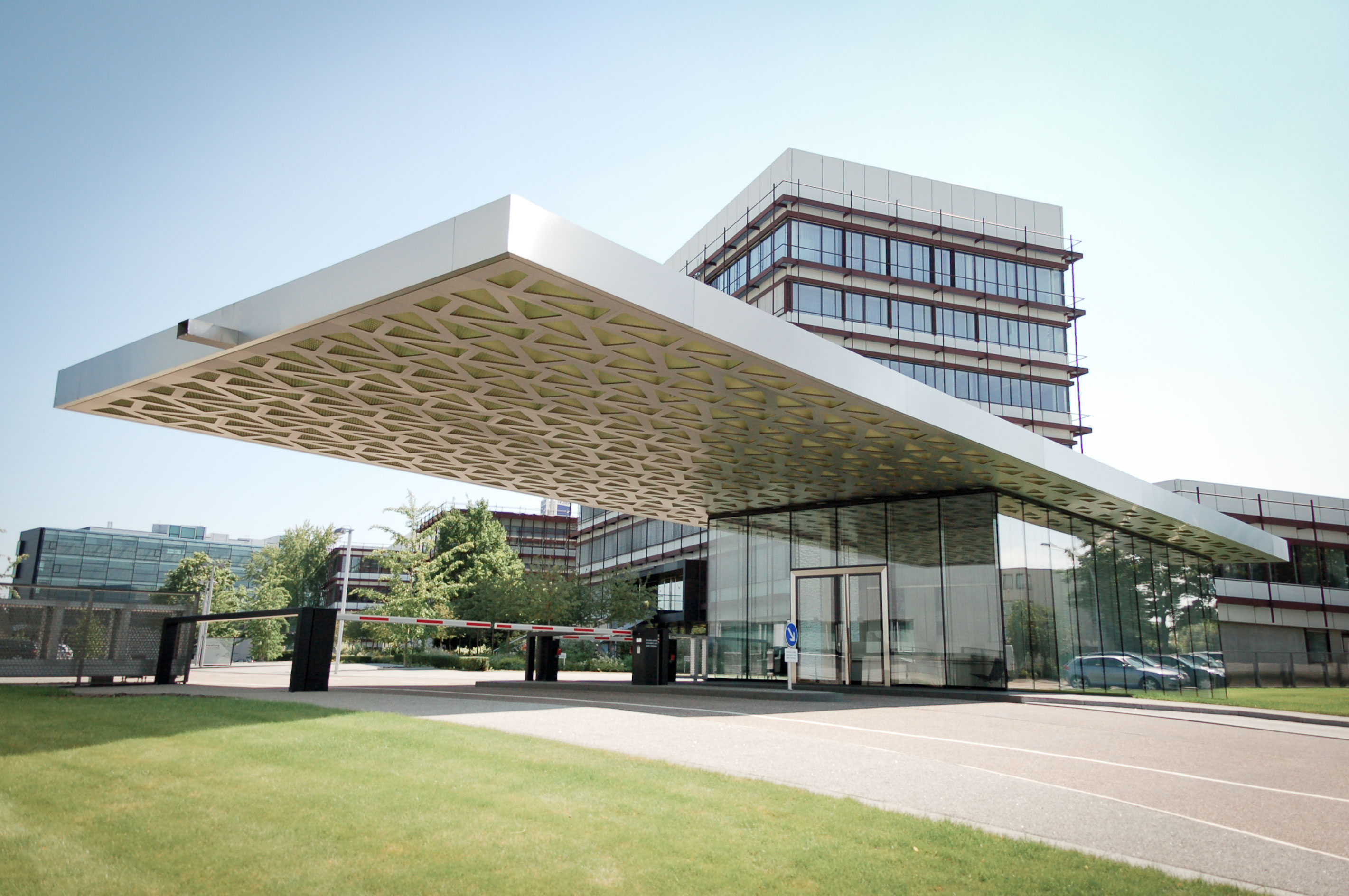 Trumpf Gate House in Ditzingen / Germany